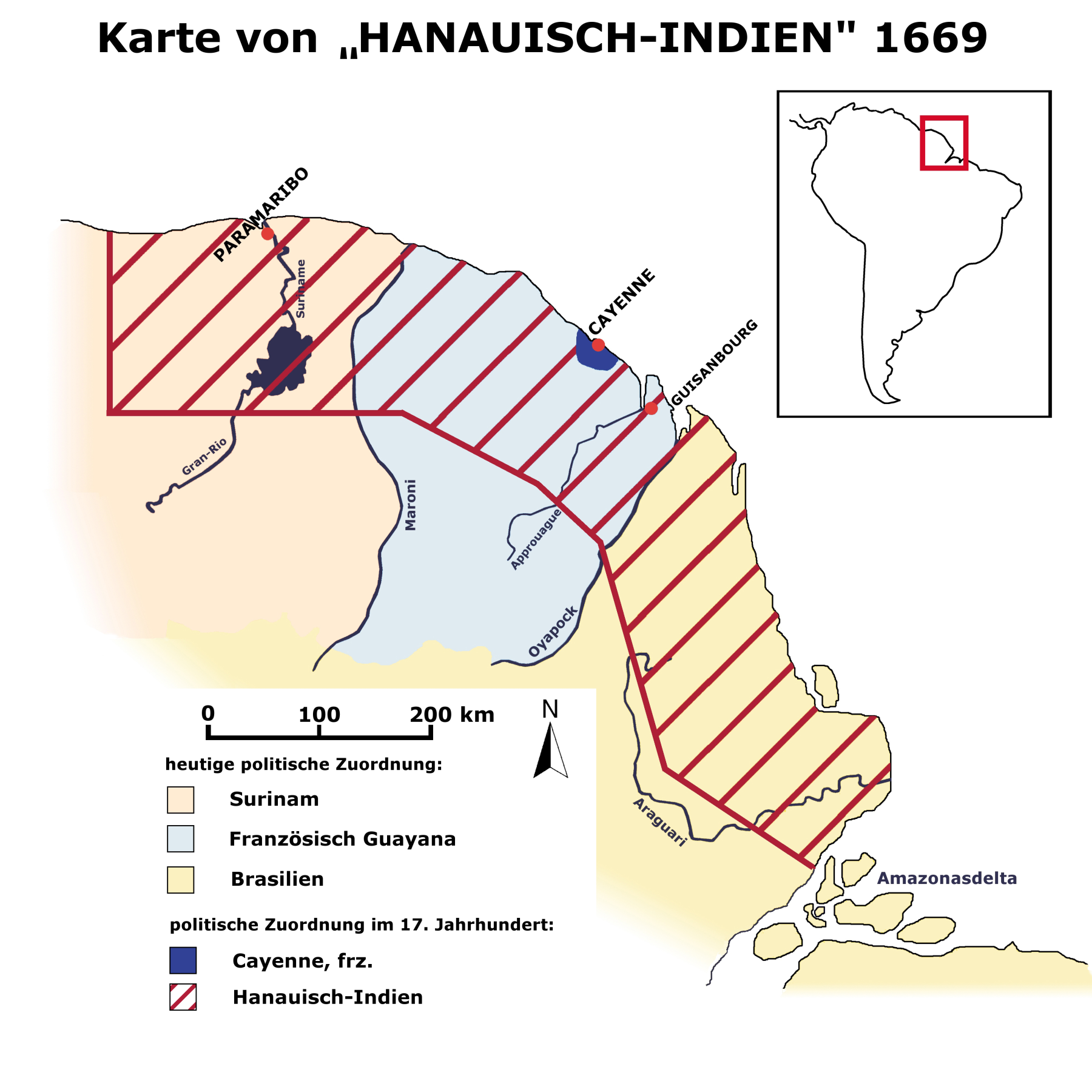 Territory of "Hanauisch Indien" 1669.